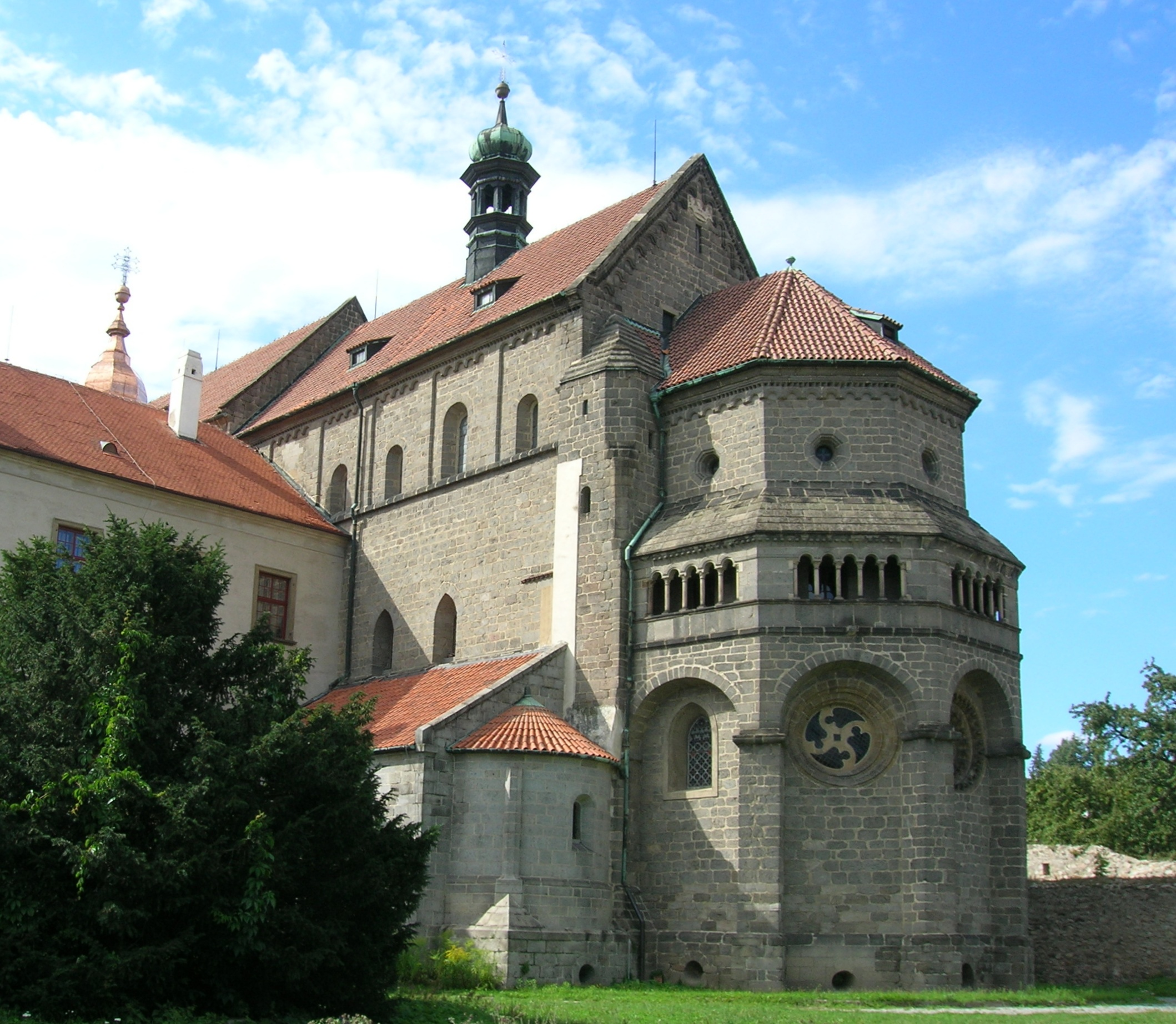 Třebíč-Podklášteří. St Procopius' Basilica.